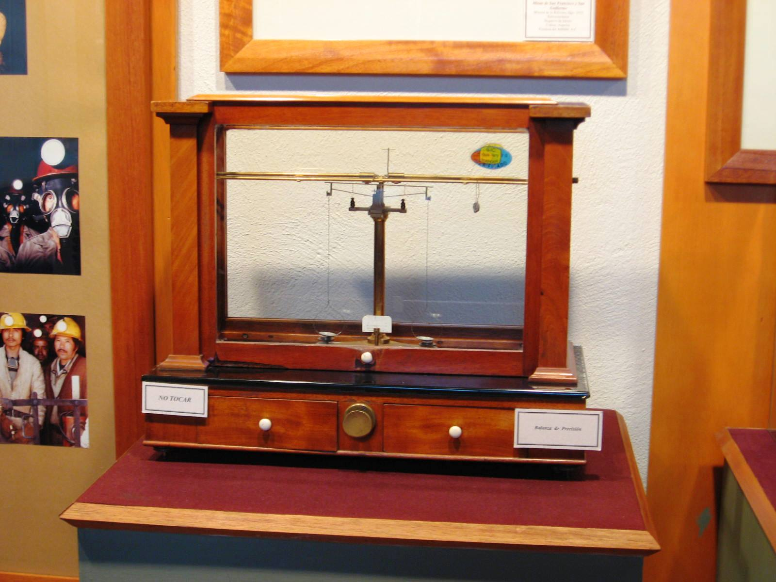 A precision balance scale for weighing silver and gold located on display at the Historic Archive and Museum of Mining in Pachuca Mexico